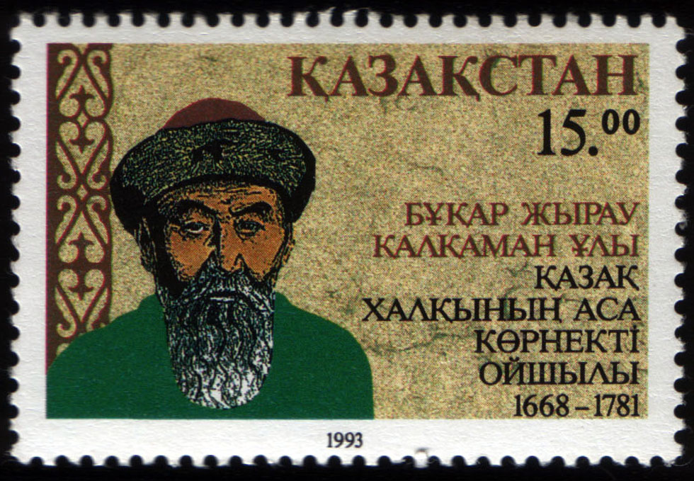 Stamp of Kazakhstan, B.Z.Kalkaman-Uly, 1993, 15 r.